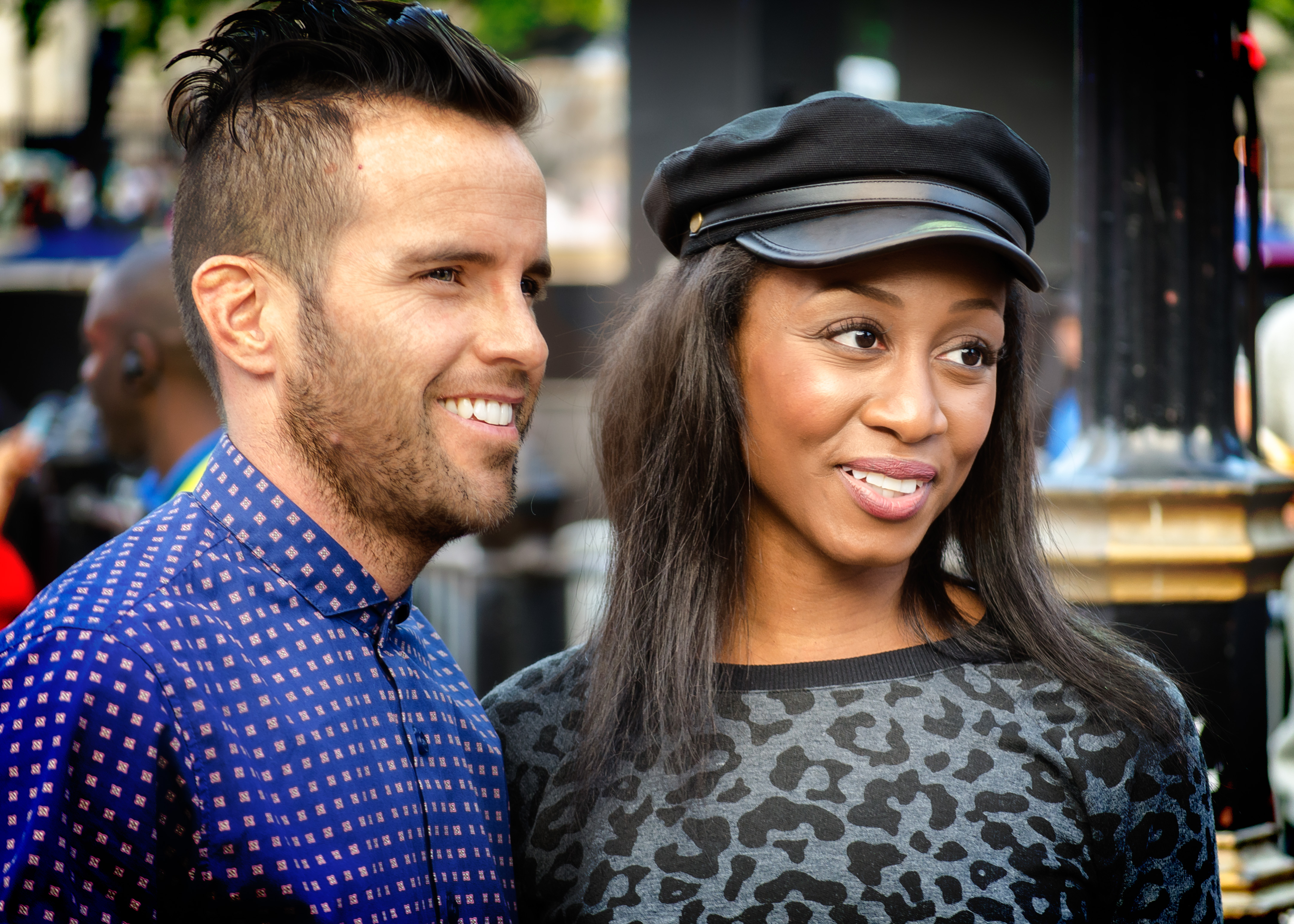 Beveryley Knight and James O'Keefe at the Malaysia Night event at London's Trafalgar Square on Friday 4th October 2013.